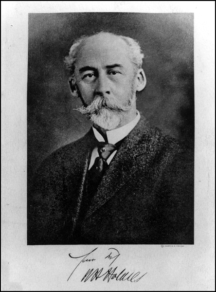 William Henry Holmes (1846-1933), American anthropologist; photo portraiture with signature